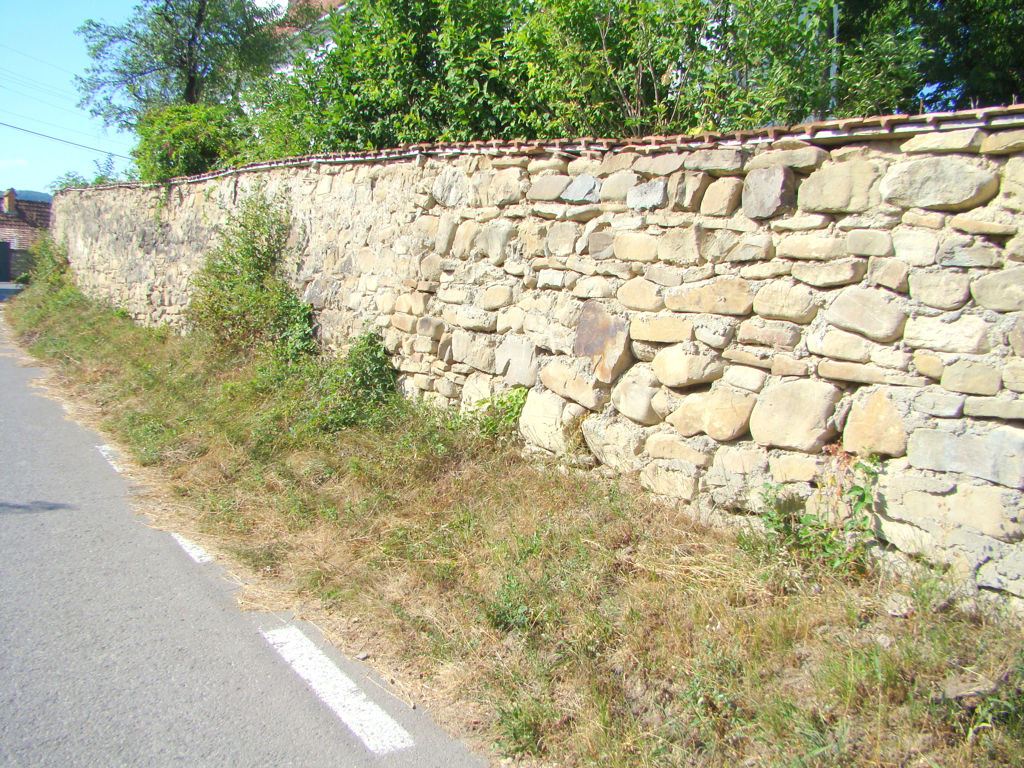 Saint Nicholas church in Porumbenii Mari; Harghita county, Romania 02